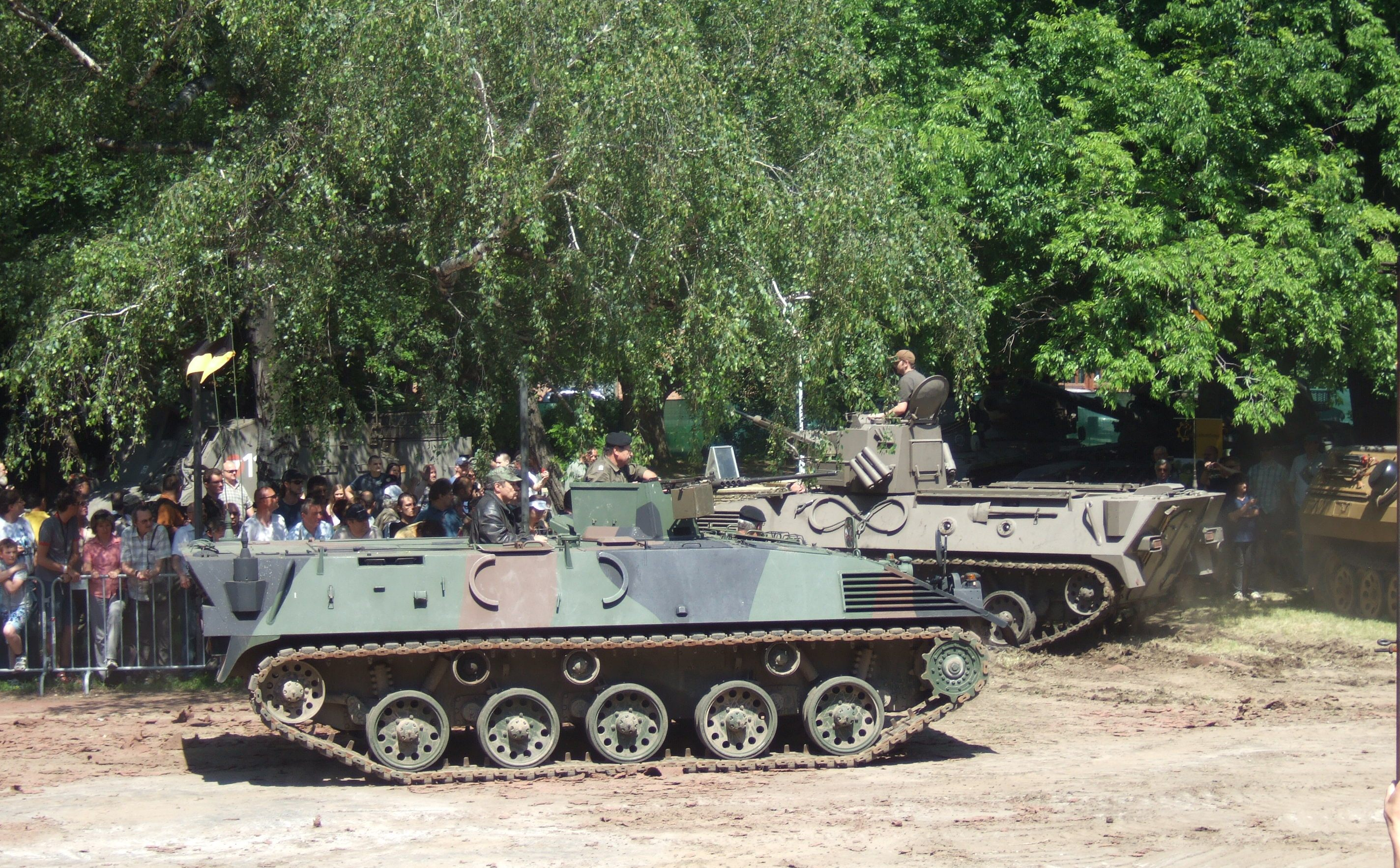 The Saurer armoured personnel carrier on a showing of the "Auf Rädern und Ketten" (On wheels and tank tracks) event in the Heeresgeschichtliches Museum